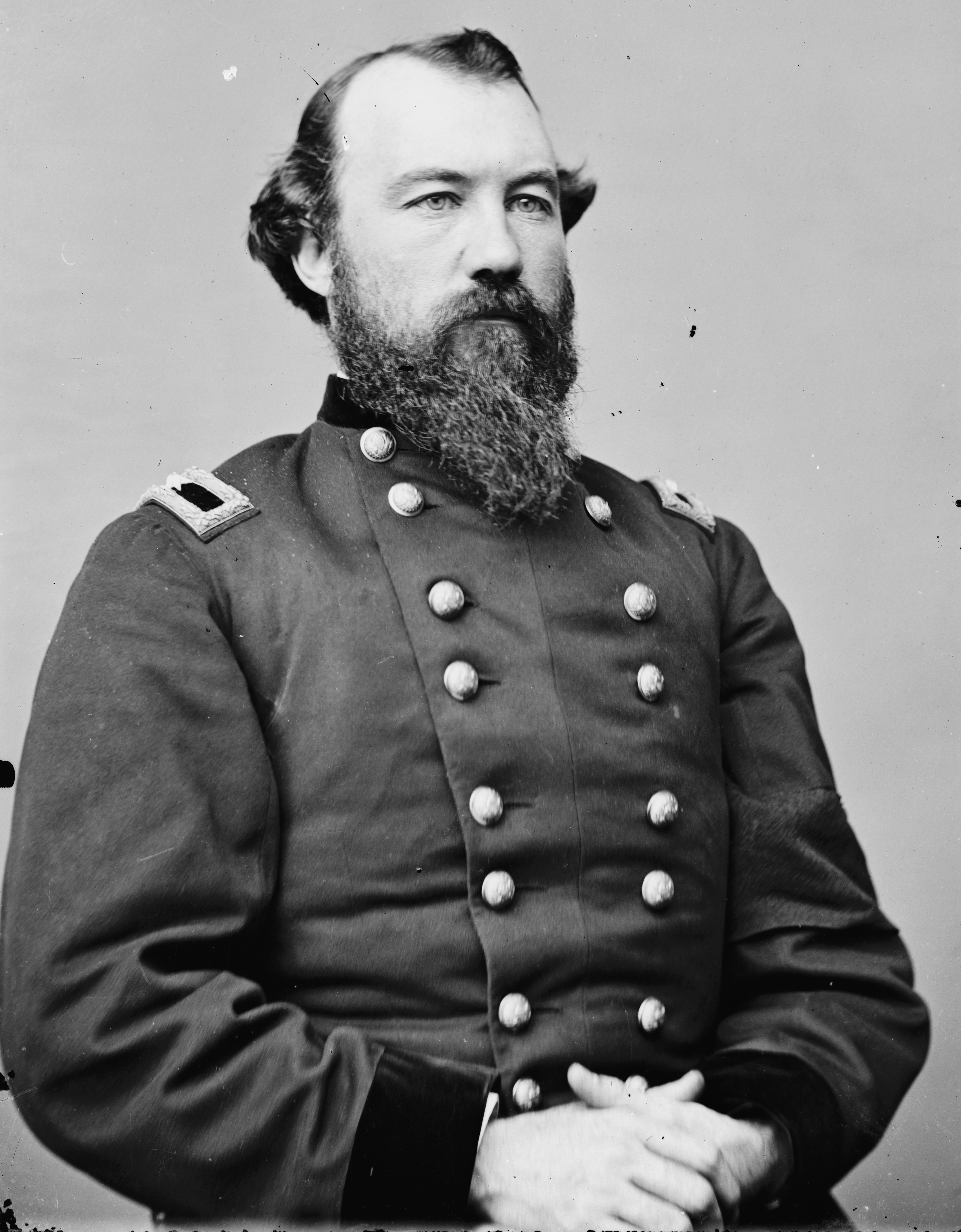 General John B. McIntosh, Colonel of 3rd PA Cavalry and commander of 1st Brigade of Custer's Third Division of Sheridan's Civil War Army of the Shenandoah.